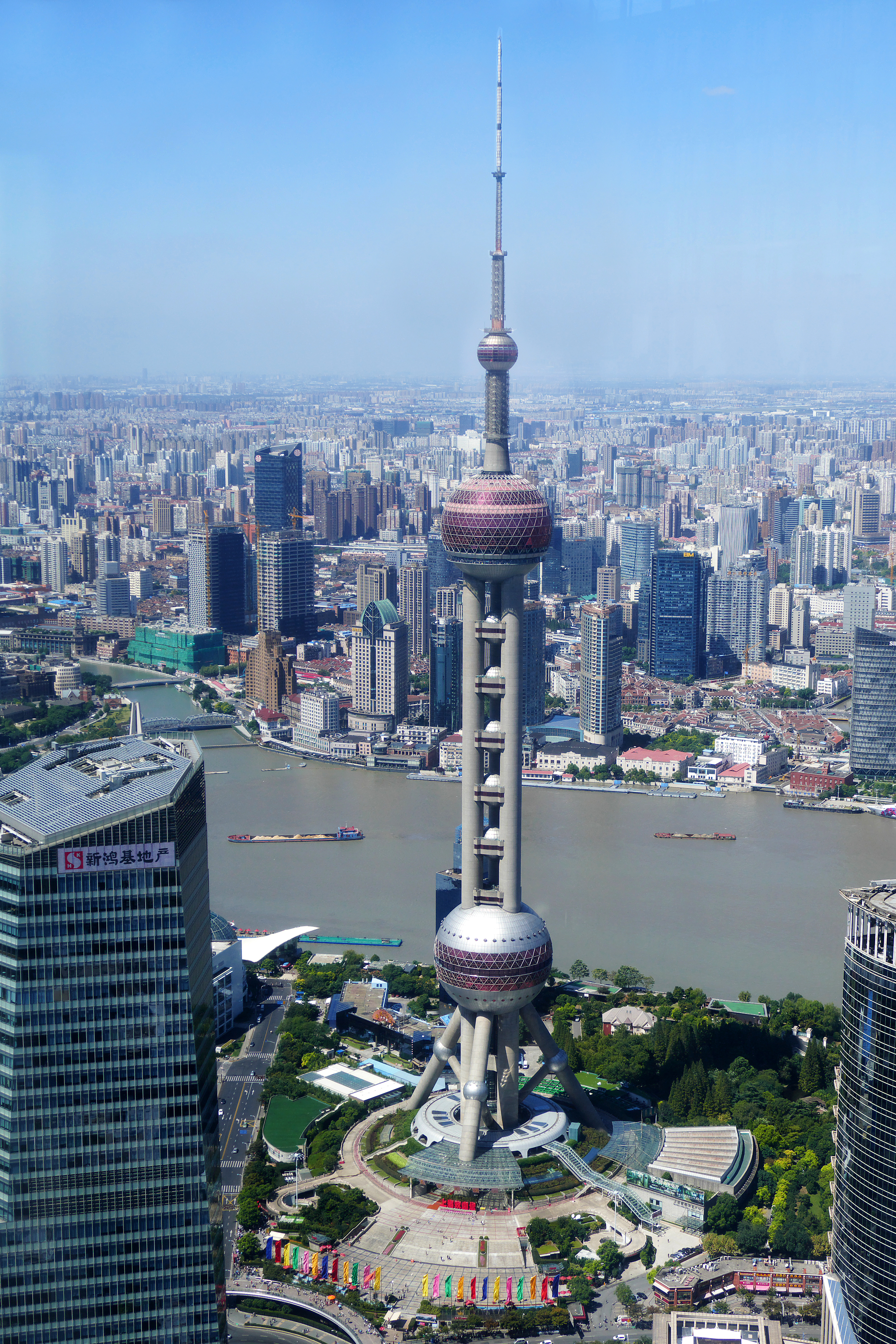 Shanghai – View from Jin Mao Tower